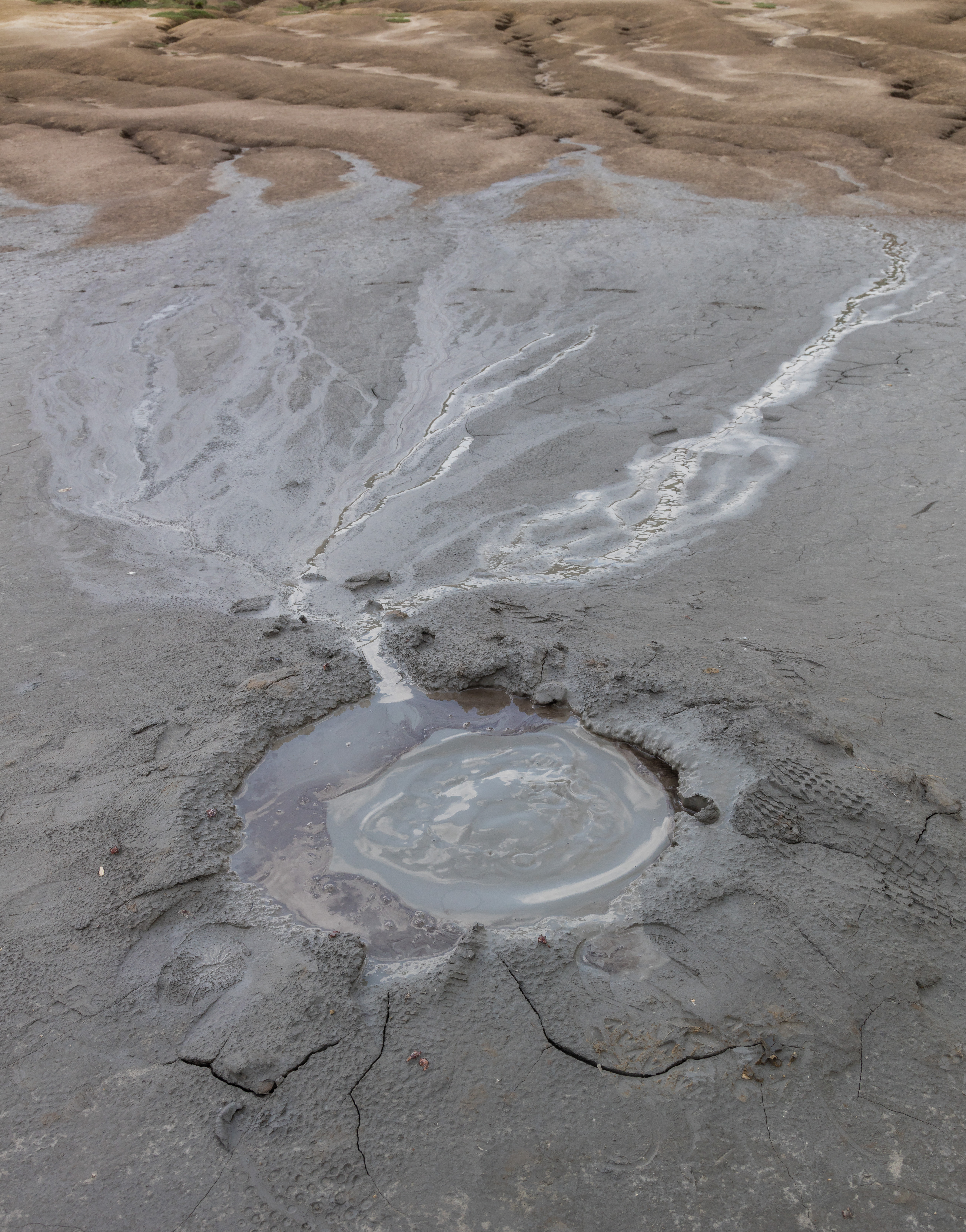 Mud volcanoes, Buzau, Romania